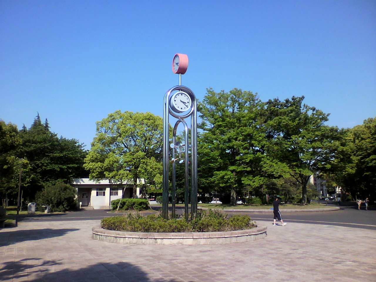 This is a landscape of Higashi Ayase Park, which is located in Adachi, Tokyo, Japan.